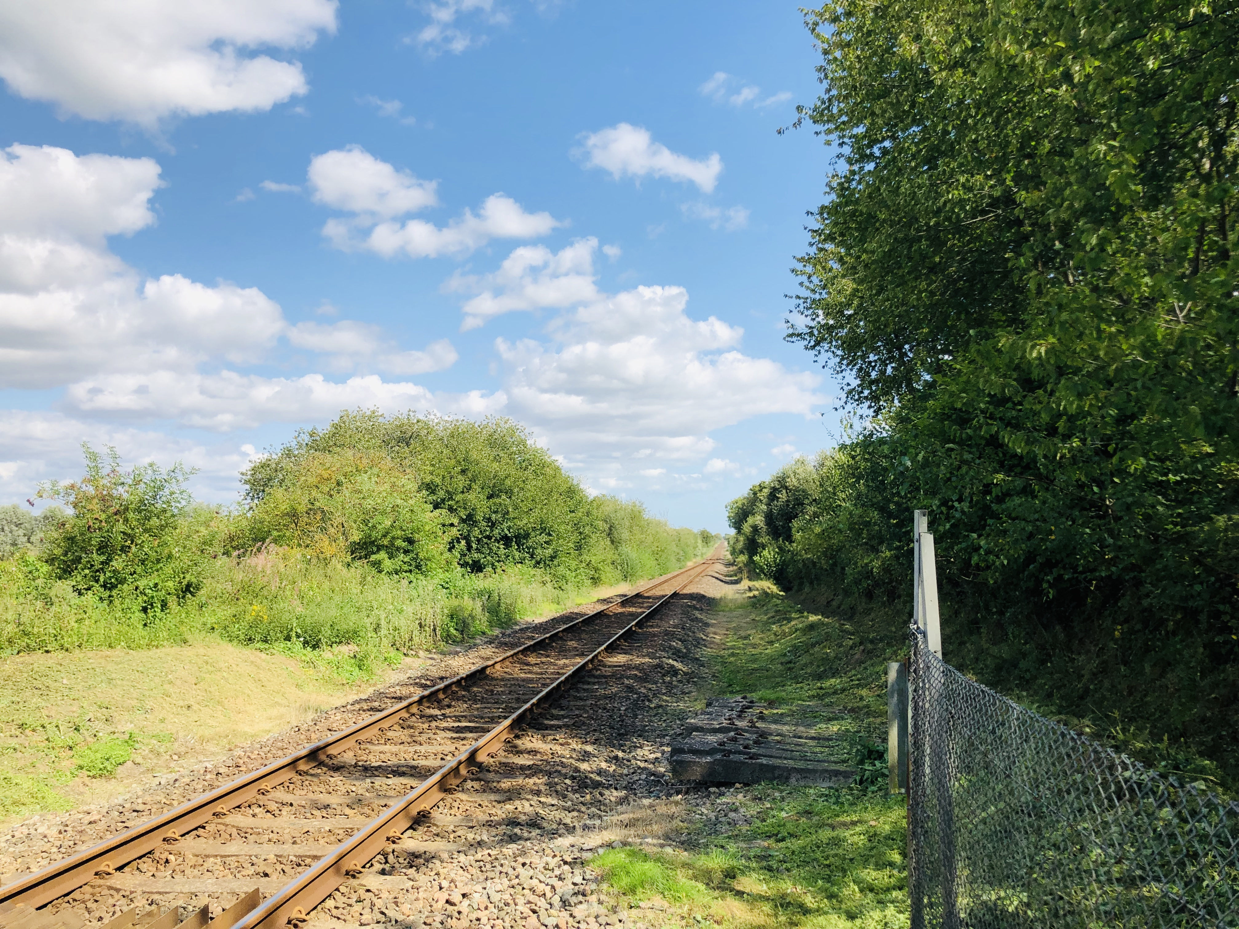 Snailham level crossing, formerly the site of the now-closed Snailham Halt railway station. There are no buildings in the immediate area and very few houses within convenient walking distance. The road that crosses the track here is unpaved.